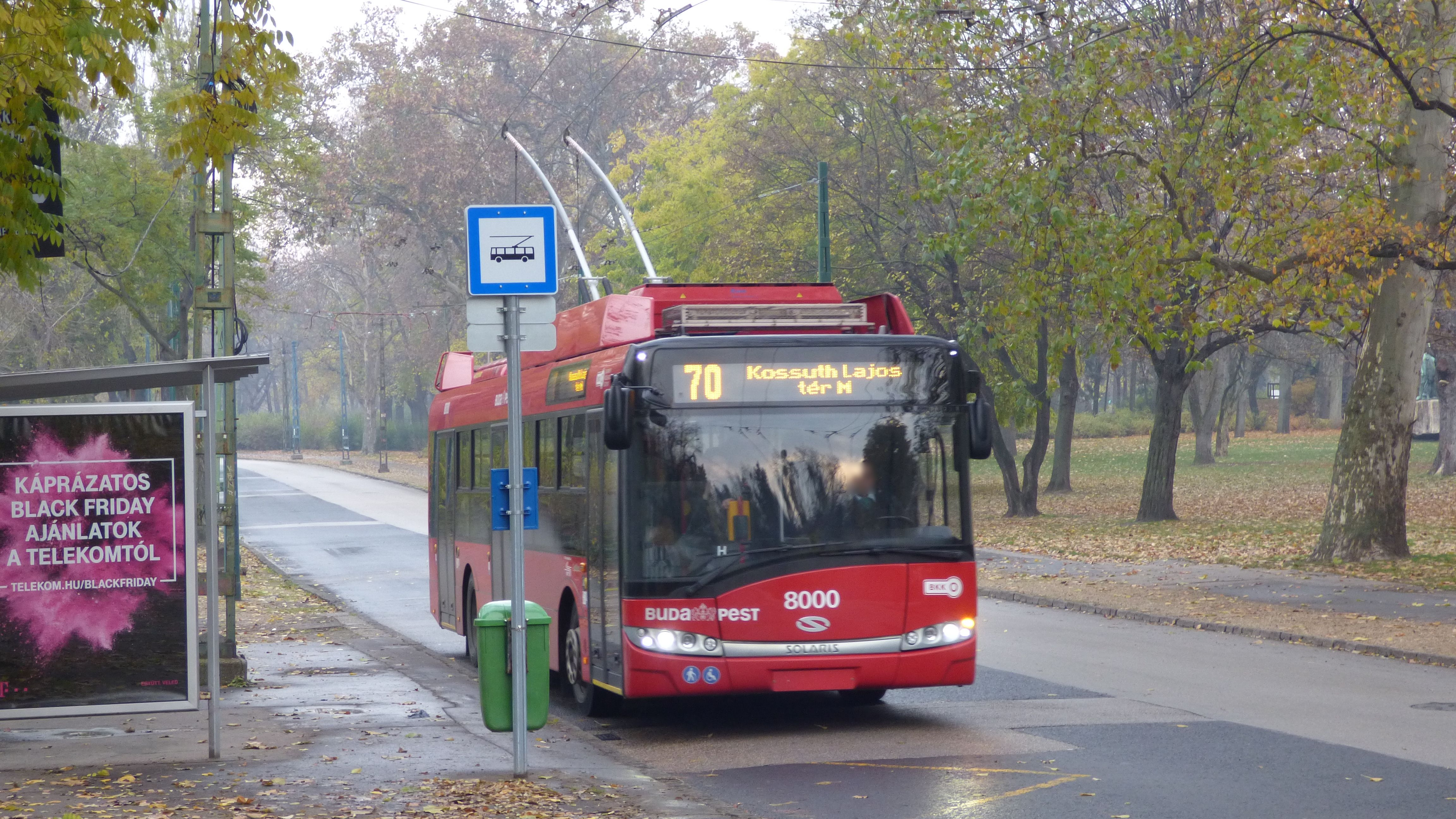 Škoda-Solaris Trollino 12 (cn. 8000), trolleybus no. 70, Budapest, City Park